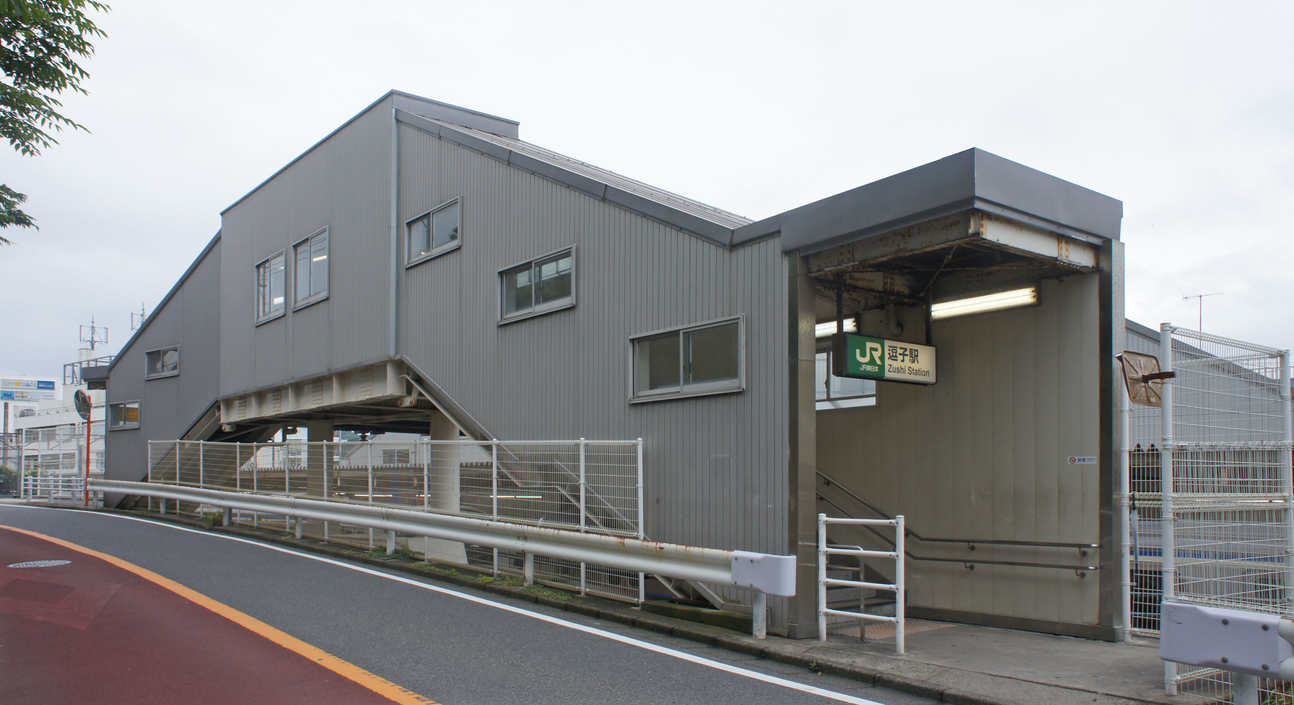 West Exit of JR Yokosuka-Line Zushi Station